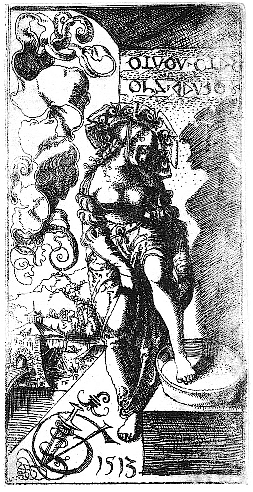 Woman bathing her feet, etching dated 1513, monogram of Urs Graf — dim. : 14 x 6,35 cm.